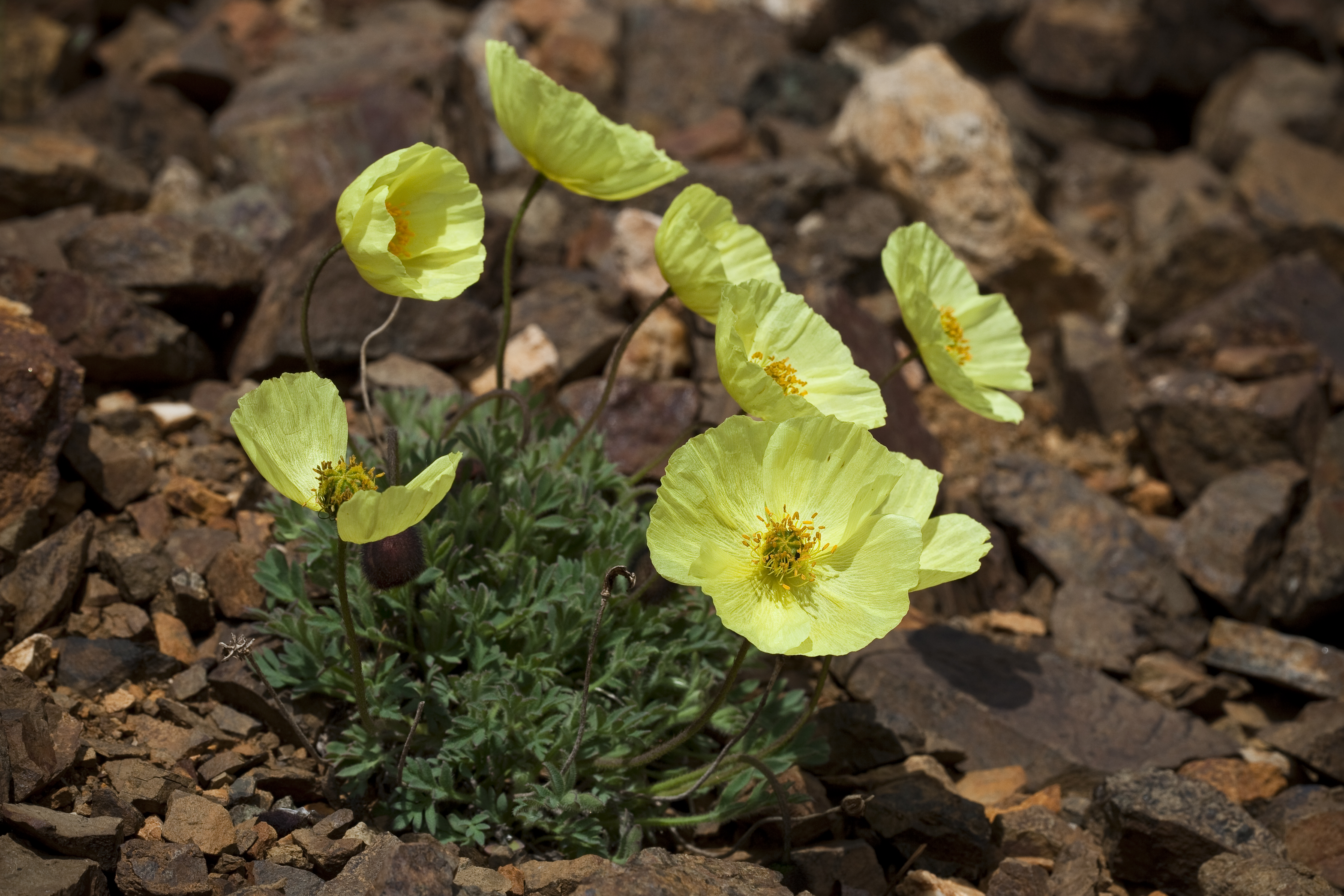 Papaver mcconnellii by Jacob W. Frank